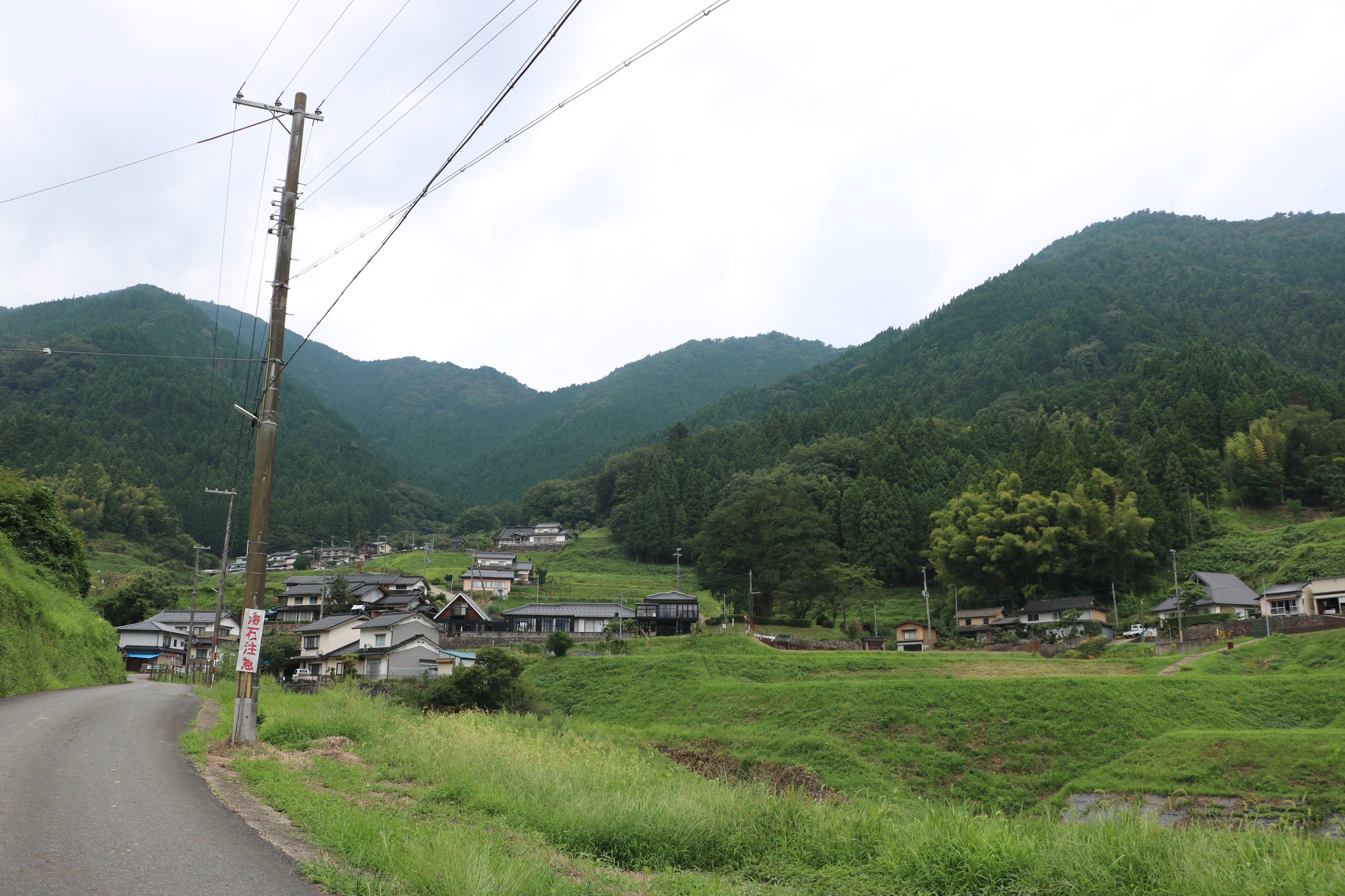 Distant view of Takinoya no Hidarimakigaya tree